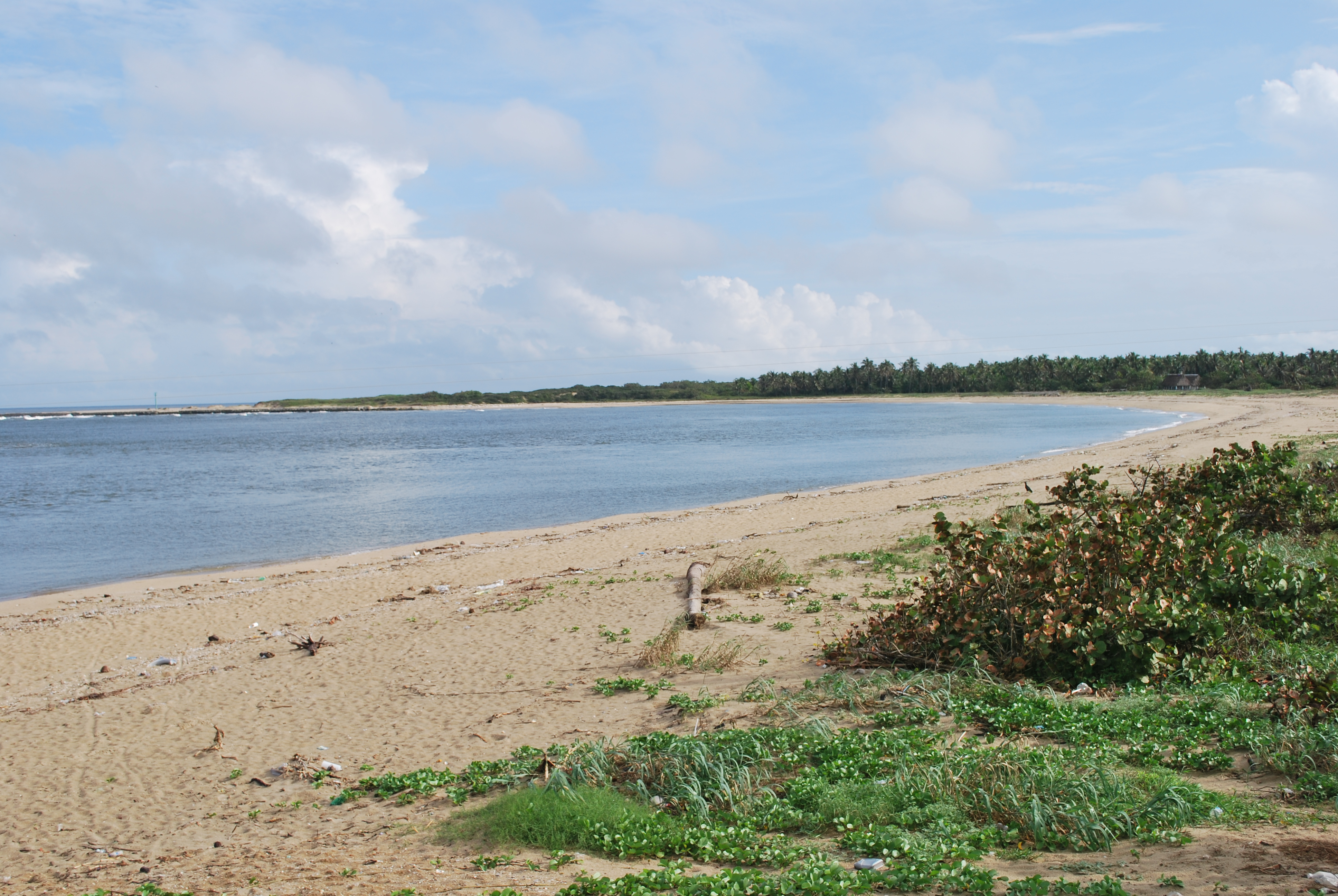 Beach area near Sanchez Magallanes, Tabasco